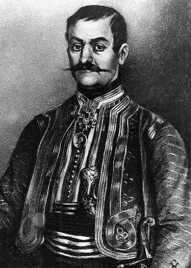 Yugoslav politician. He served as Prime Minister of Yugoslavia